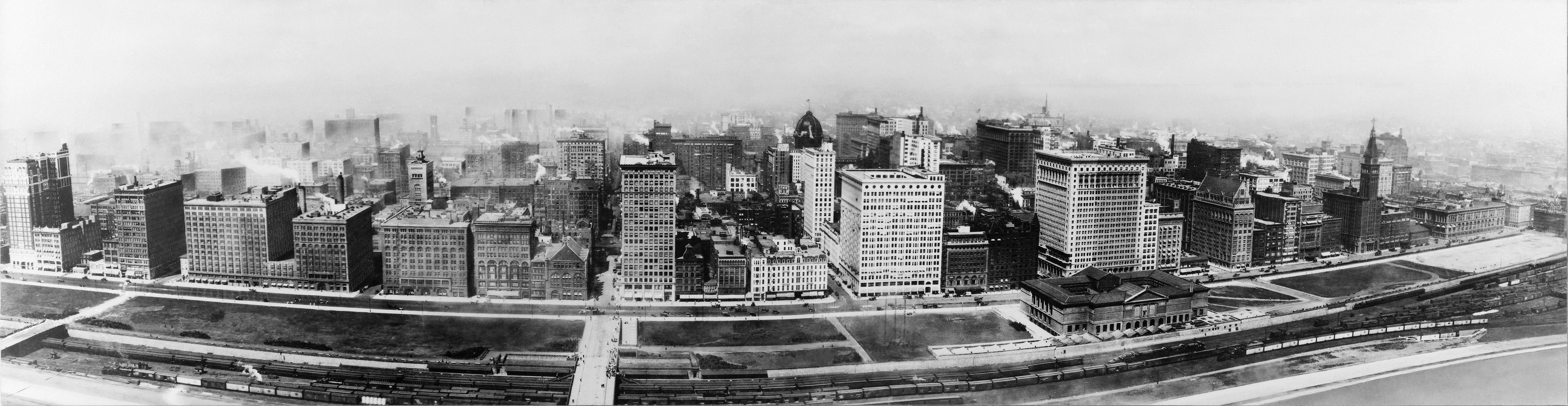 A bird's-eye view of Chicago from elevation 700 ft. above Lake Michigan.